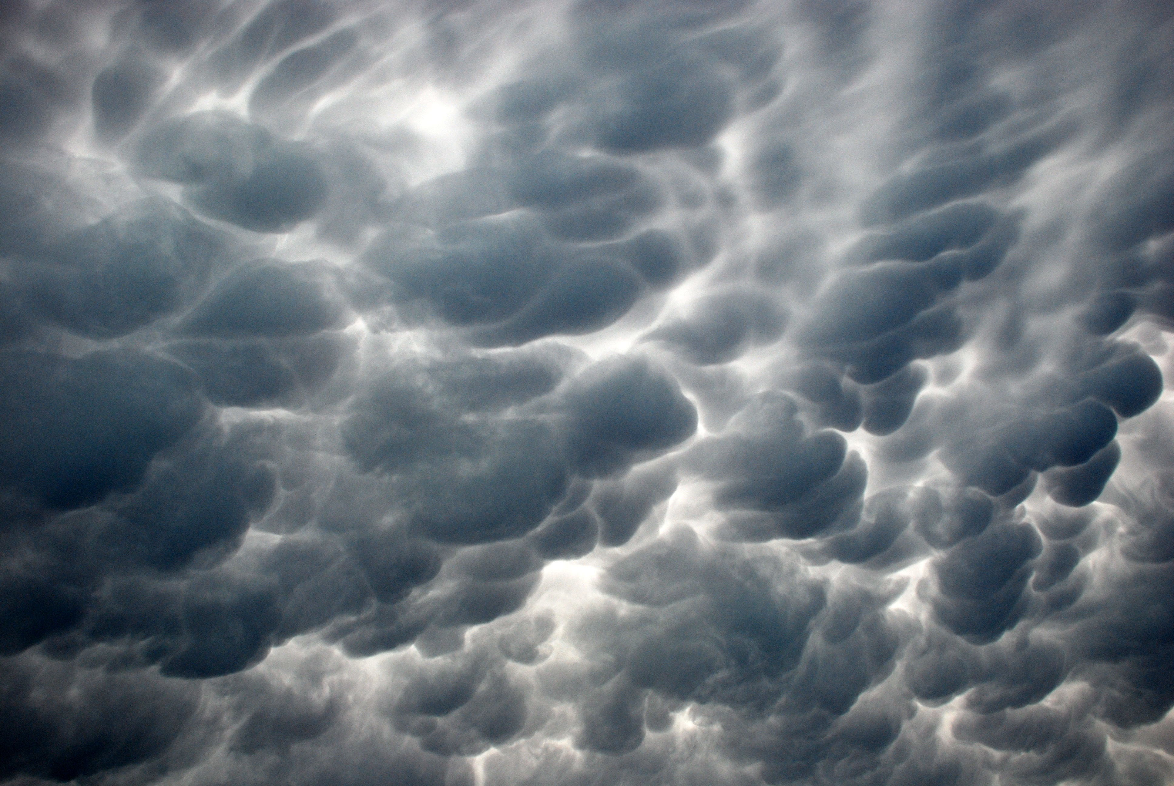 Mammatus clouds in San Antonio, TX - 2009